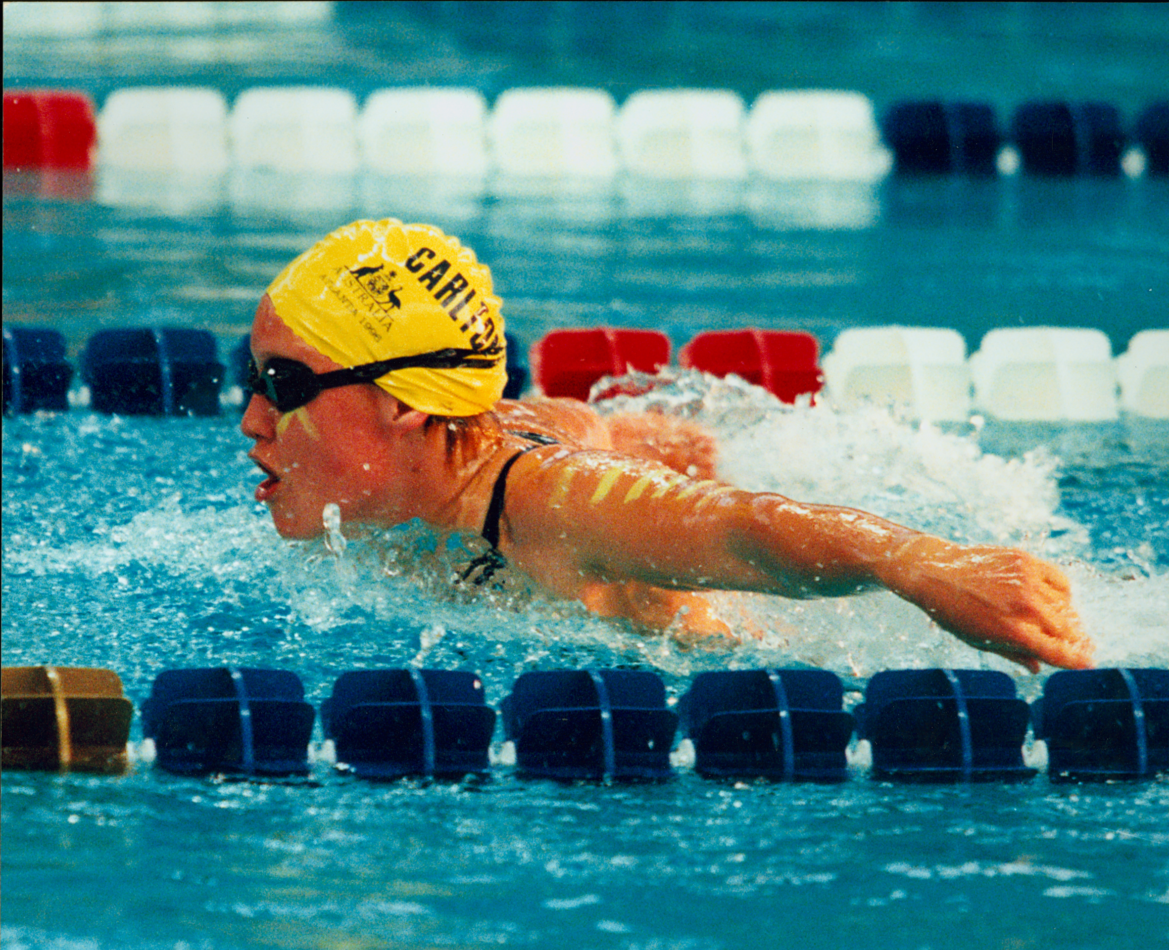 Australian athletes at the Atlanta 1996 Paralympic Games